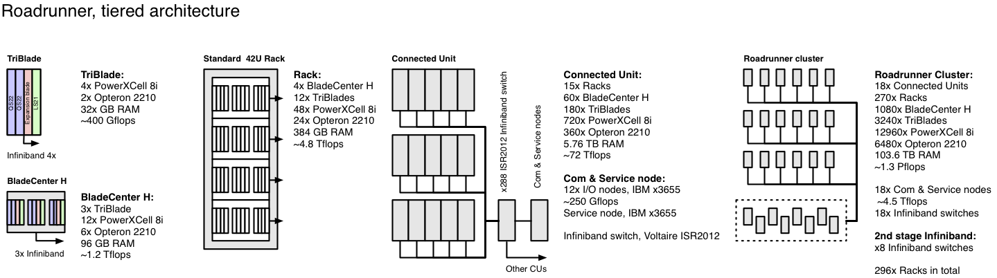 A schematic overview of the Roadrunner supercomuter